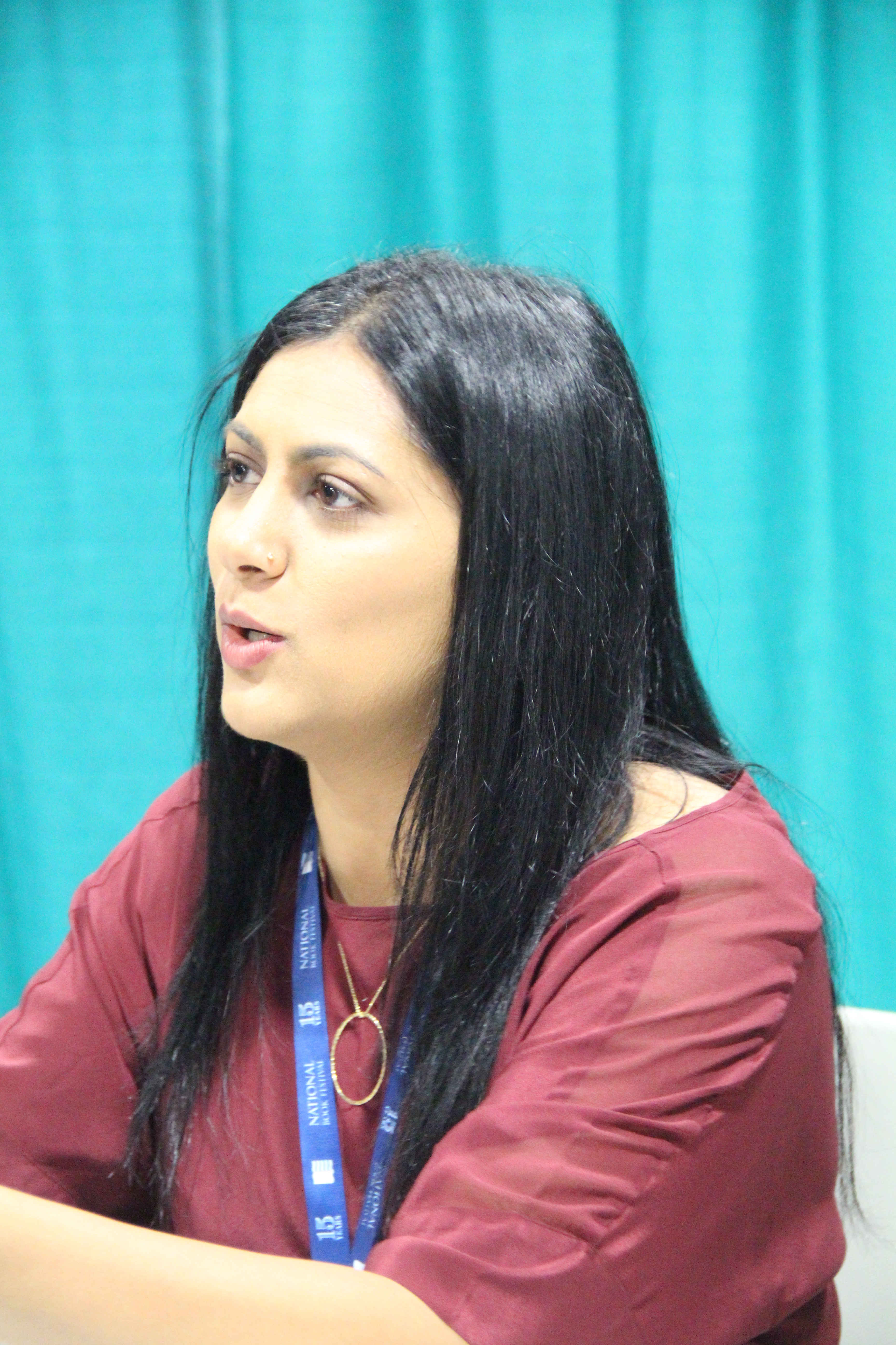 2015 Library of Congress National Book Festival September 5, 2015 Washington, DC